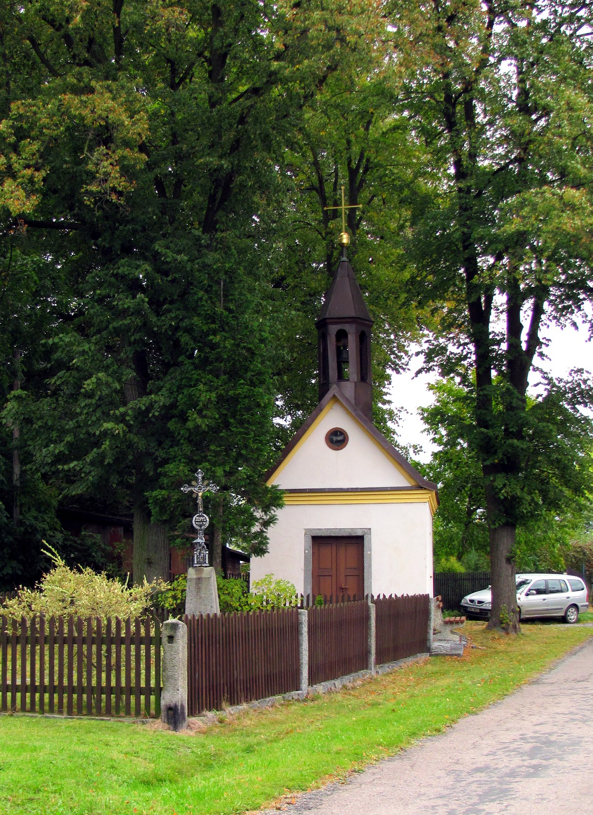 Chapel located in Dolni Babakov, built at the end of 19th century.